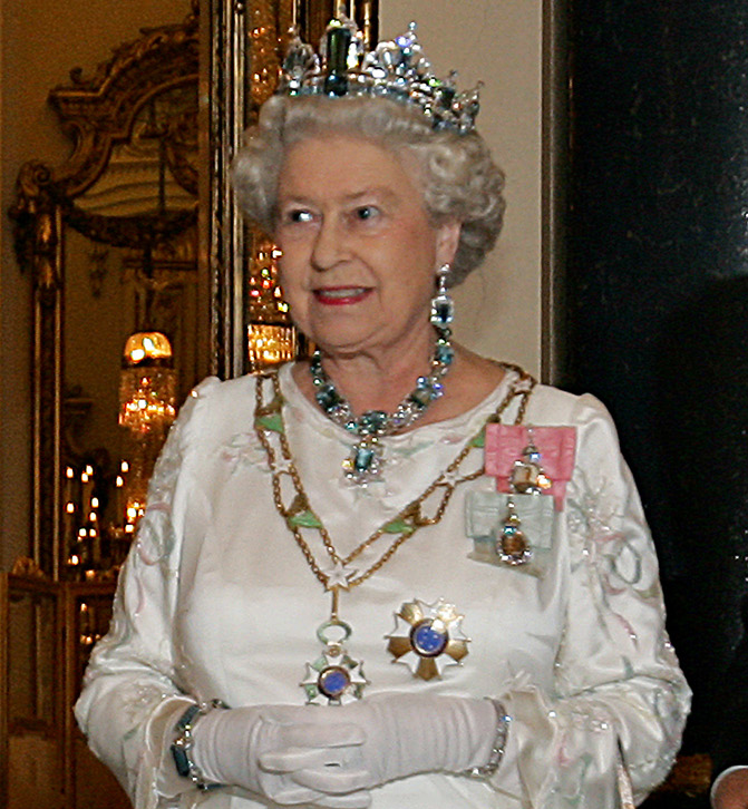 Queen Elizabeth II of the United Kingdom during a state banquet in honor of Brazilian president Lula da Silva at Buckingham Palace, London. The Queen wears the insignia of the Grand Collar of the Brazilian National Order of the Southern Cross (namely, the Grand Collar itself and the Star). Also worn are the insignia of the Royal Family Orders of Kings George V (white background) and George VI (pink background), and also the aquamarine necklace and other jewels that were given her by the Government of Brazil as a Coronation gift, as well as the aquamarine tiara, commissioned by the Queen in 1957 to match the jewels that had been given to her by the Brazilian Government.